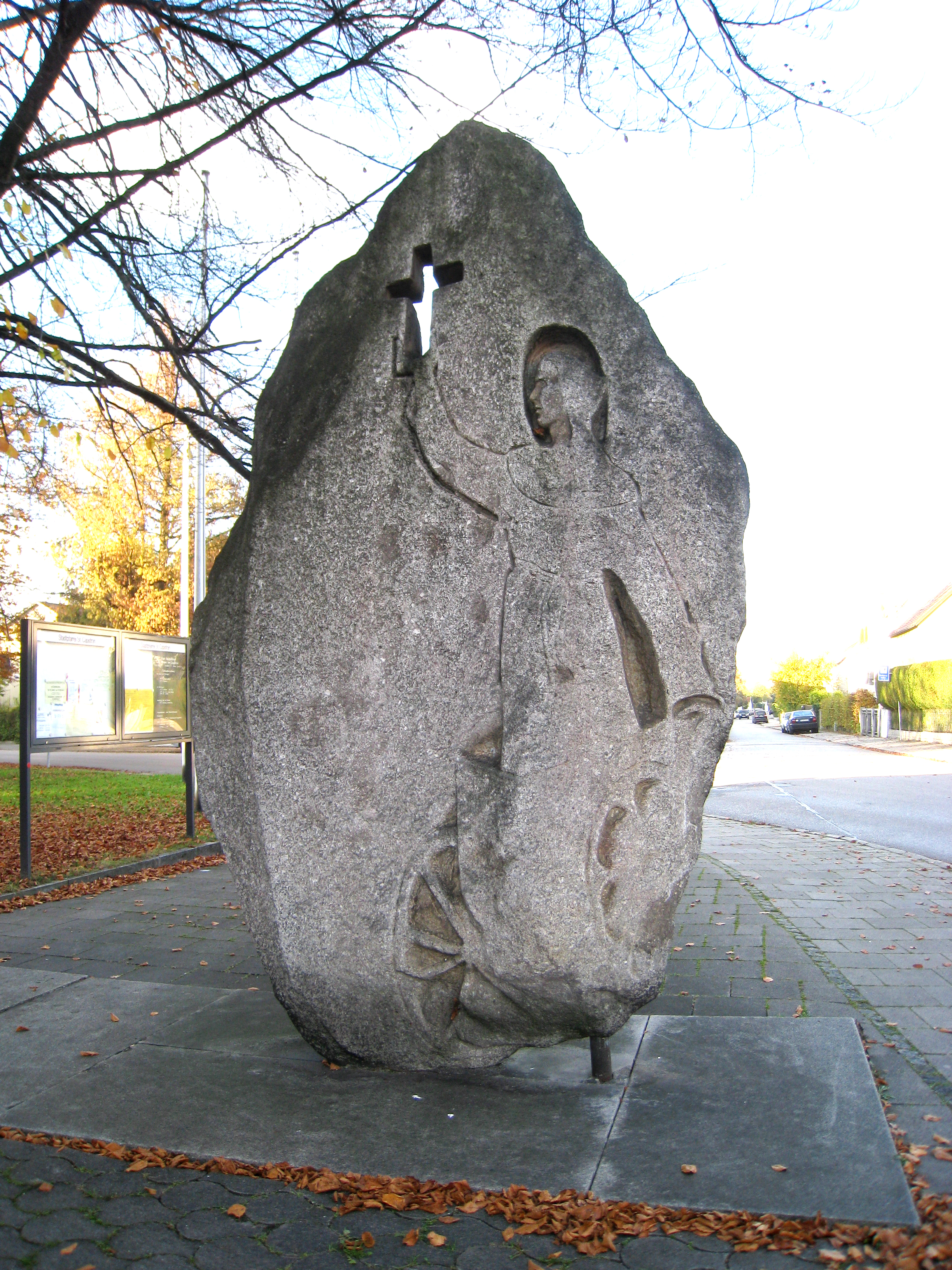 Memorial for St. Johann from Capistran in front of the St. Johann von Capistran Church in Munich Bogenhausen, Bavaria, Germany. Created by the sculptor Prof. Josef Henselmann.